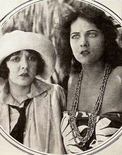 Still (cropped for publication) from the American film Ebb Tide (1922) with Lila Lee and Jacqueline Logan, on page 6 of the December 2, 1922 Exhibitor's Trade Review.